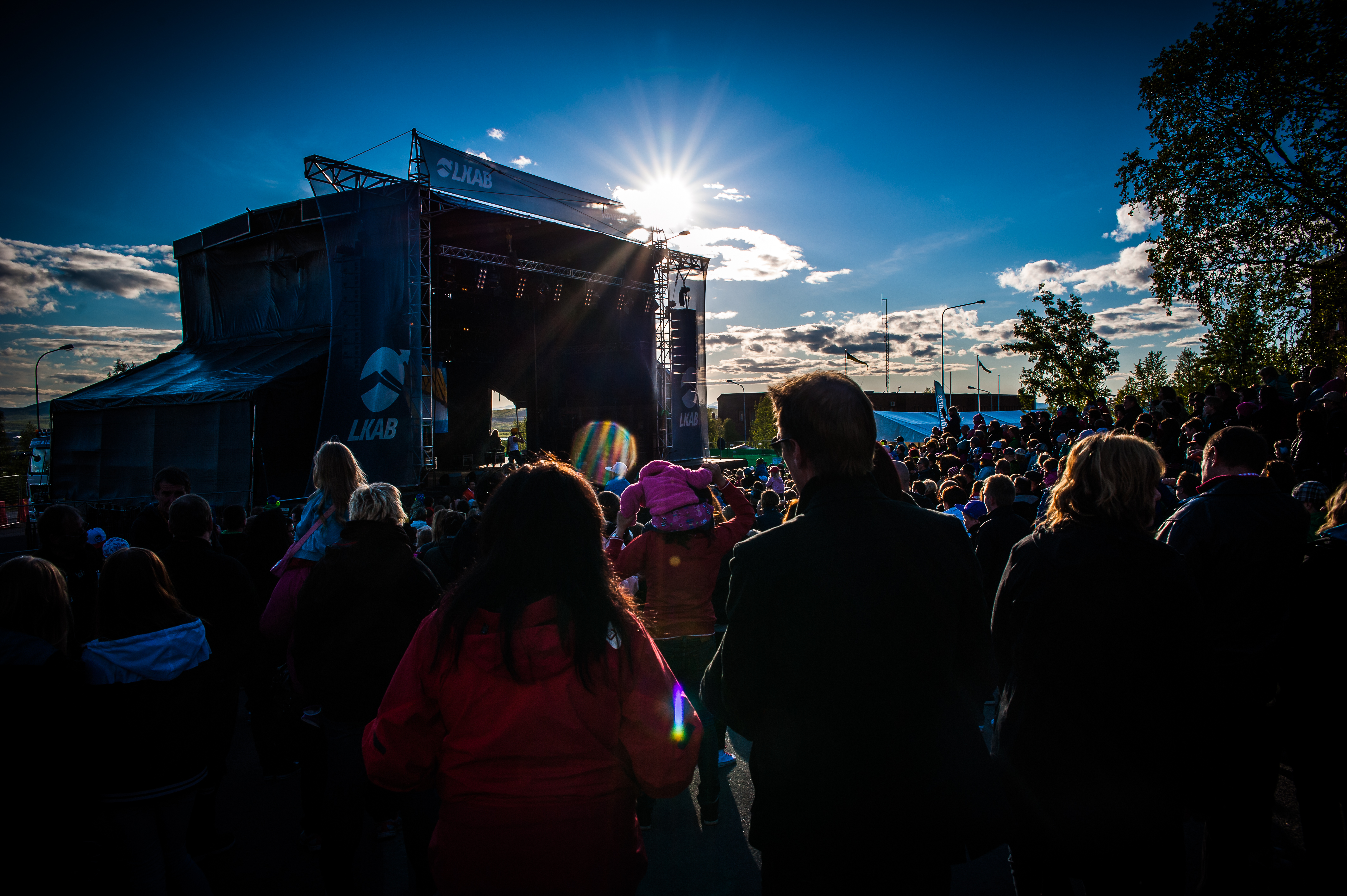 Picture of LKAB-Stage and crowd during Kirunafestivalen 2012